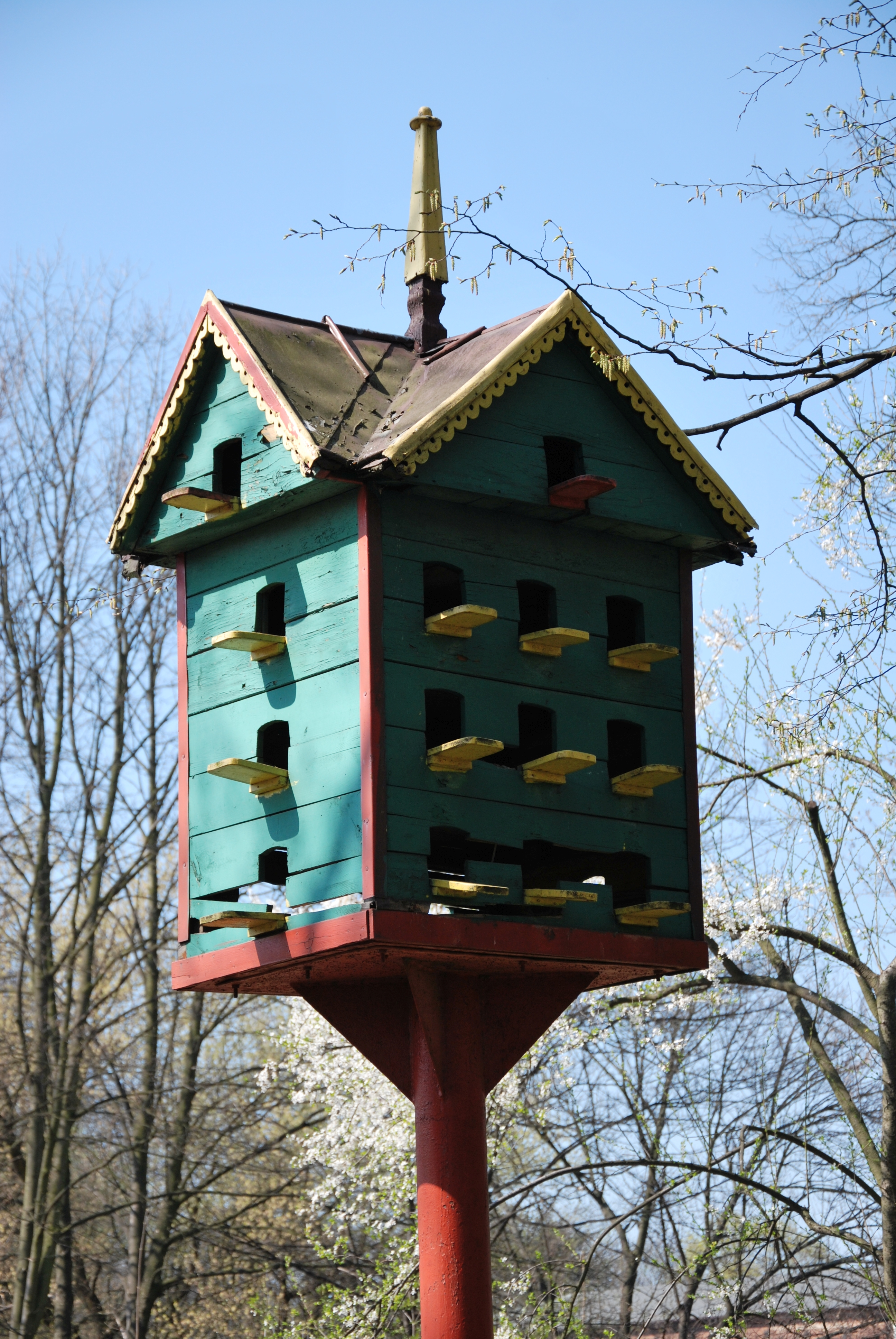 Birdhouse in Park Źródliska in Łódź